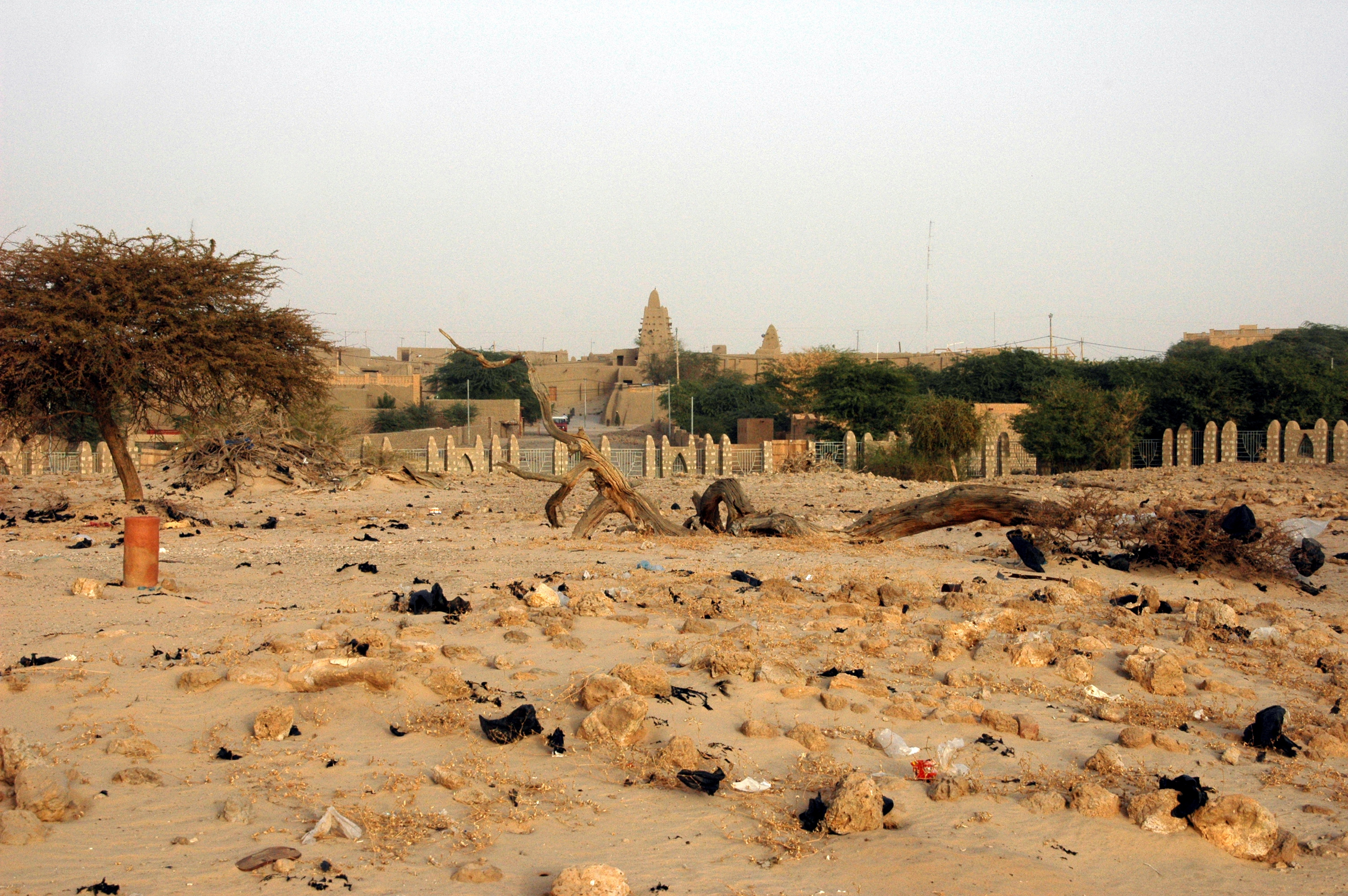 Timbuktu cemetery